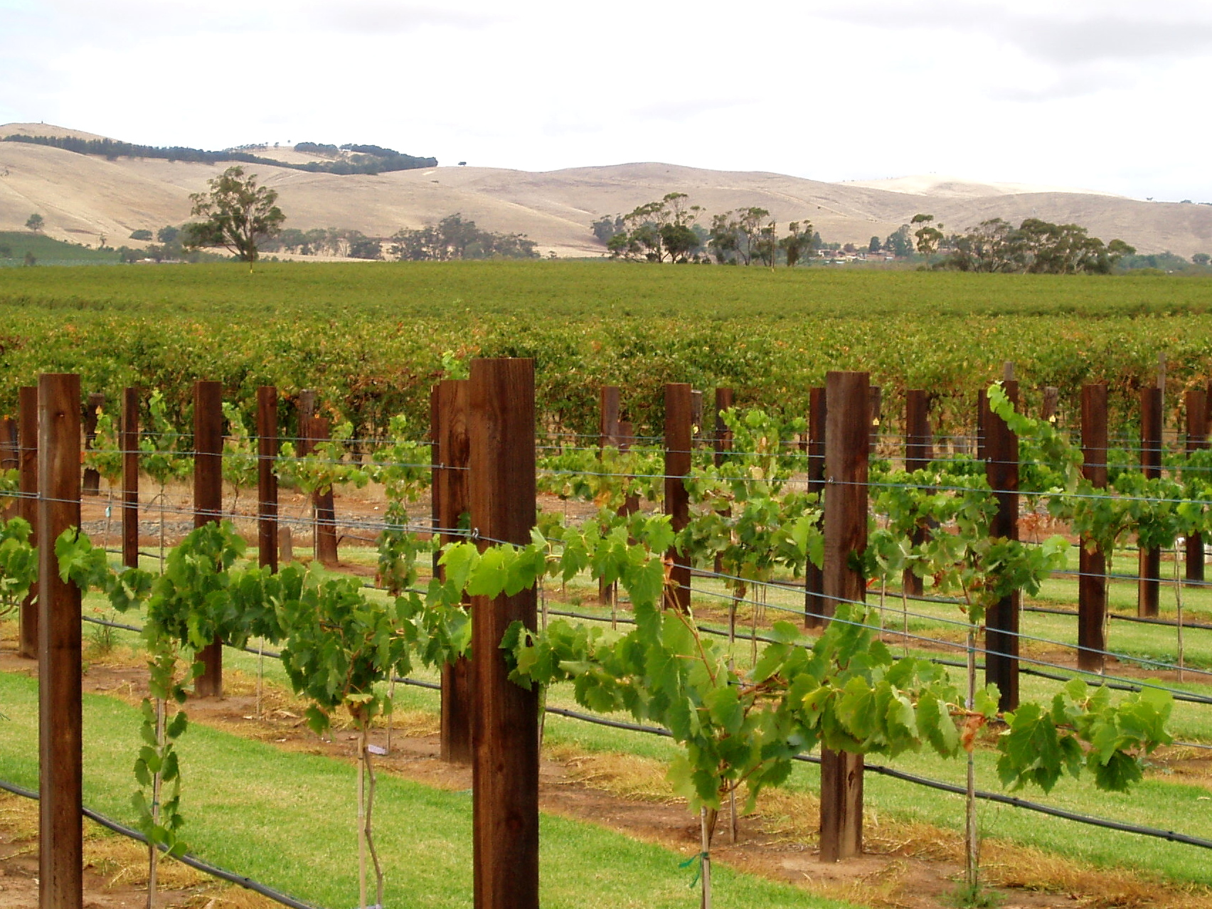 A vineyard in the South Australian wine region of the Barossa Valley.